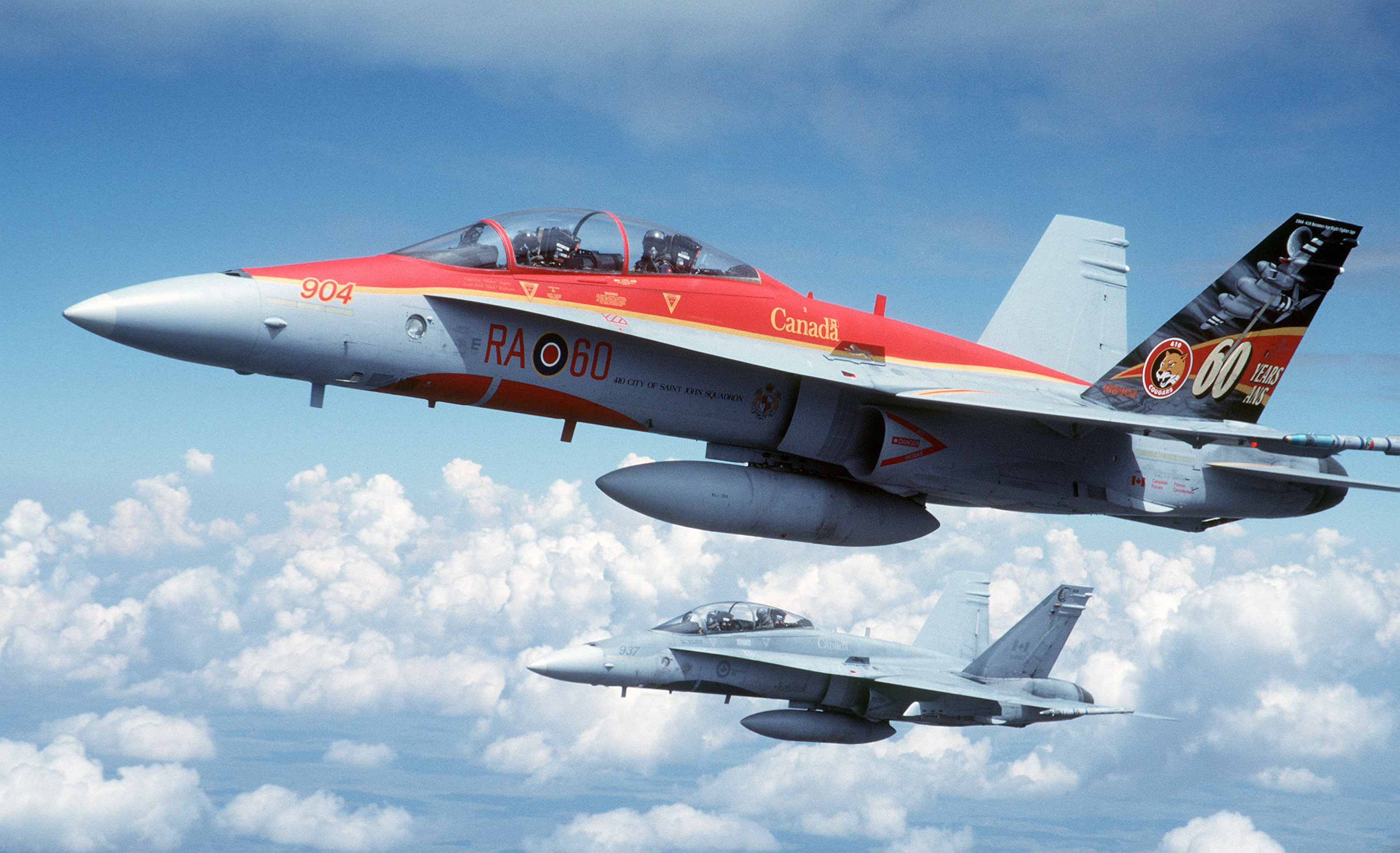 Two Canadian Forces 410 Squadron CF-188B Hornet fighter flying over the Utah Test and Training Range (USA) for planned engagements during the "Tiger Meet of the Americas" on 9 August 2001. The first aircraft is painted in a special scheme commemorating the 60th anniversary of 410 Squadron. The inaugural "Tiger Meet of the Americas" brought together flying units from throughout North America that have a Tiger or large cat as their unit symbol (in 410 Sqn's case, a Cougar). The Tiger Meet of the Americas closely mirrors the North Atlantic Treaty Organization (NATO)/Europe Tiger Meet in its goal of fostering camaraderie, teamwork and tactics familiarization.